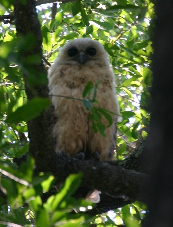 Pel's Fishing-owl (Scotopelia peli) , Okavango Delta, Botswana